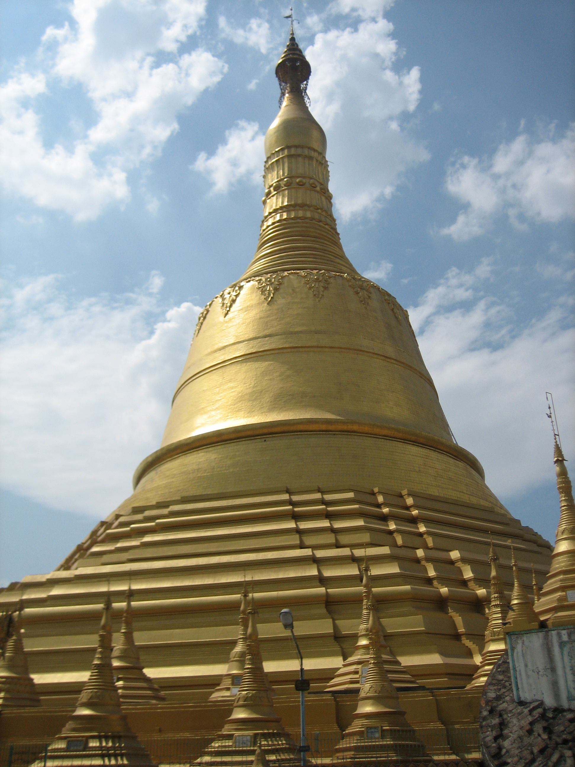 Shwemawdaw Pagoda